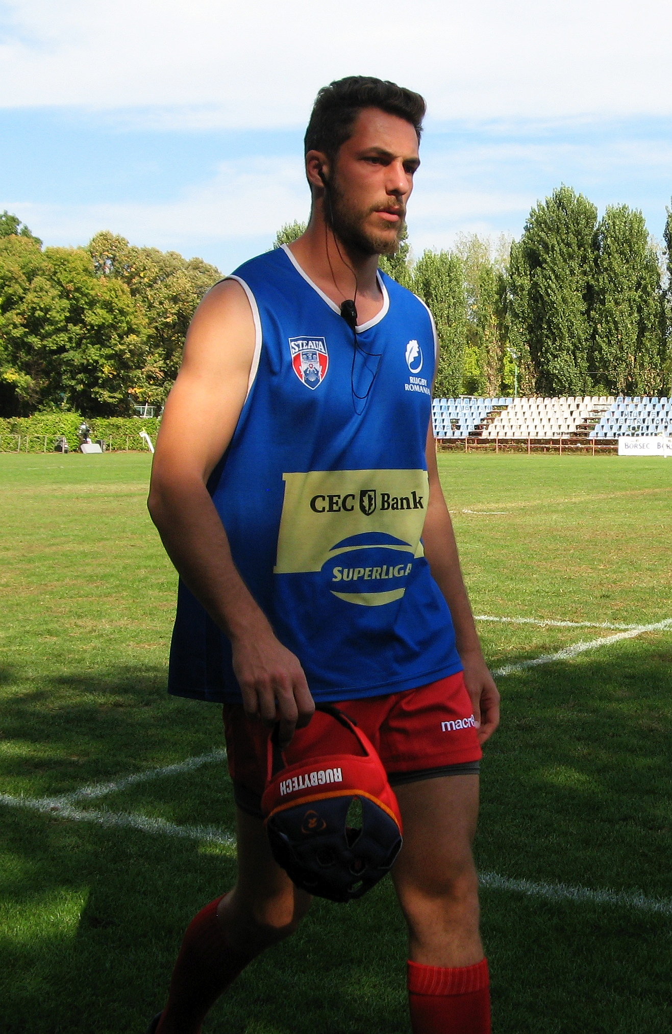 Romanian rugby union football player Alexandru Porojan, player of CSA Steaua București rugby club seen training before a match against Timișoara Saracens in Round 3 of Romanian Rugby SuperLiga in September 2018